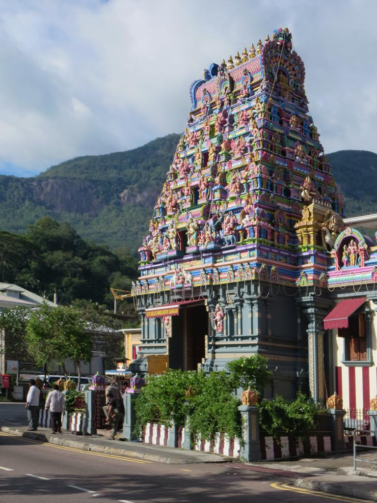 Hindu Temple Victoria Seychelles Islands of Africa